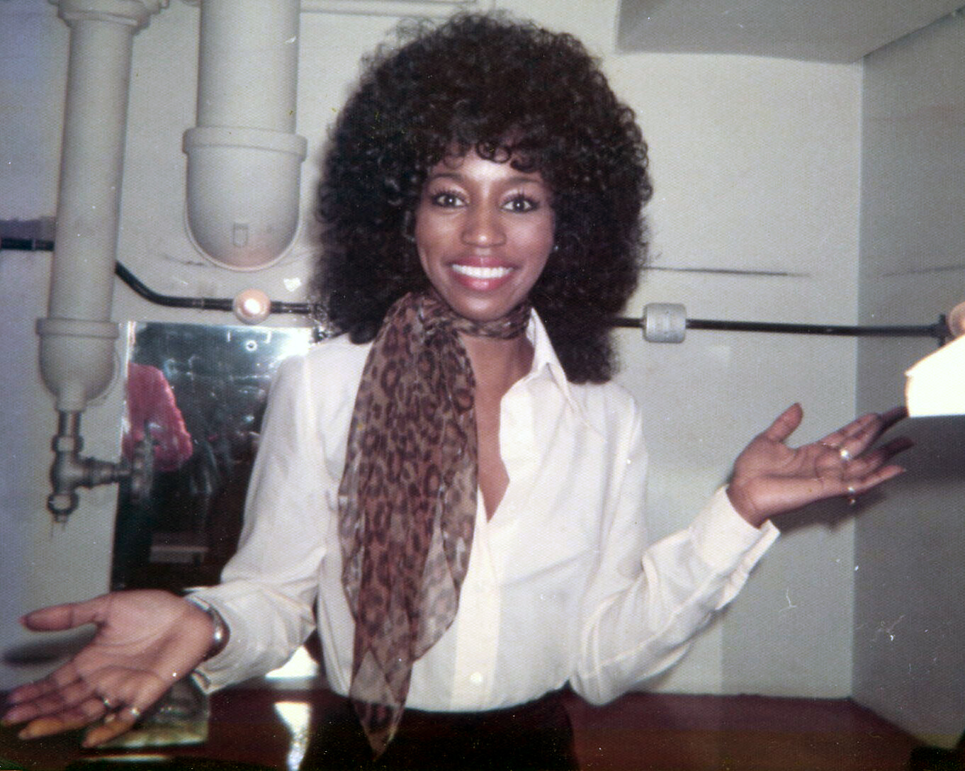 Fayette Pinkney, New Victoria Theatre, London, UK 1974.